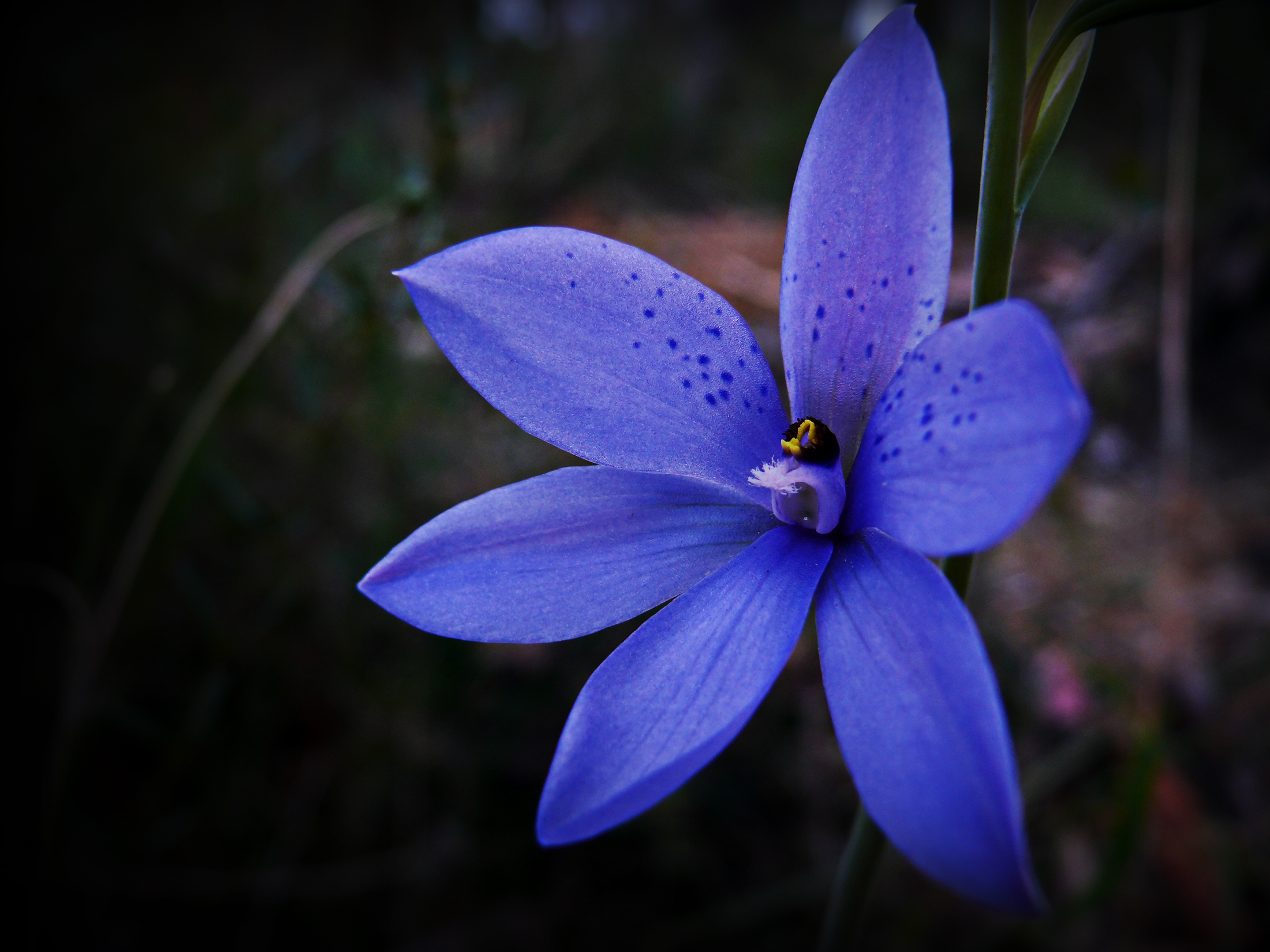 210809 Thelymitra ixioides